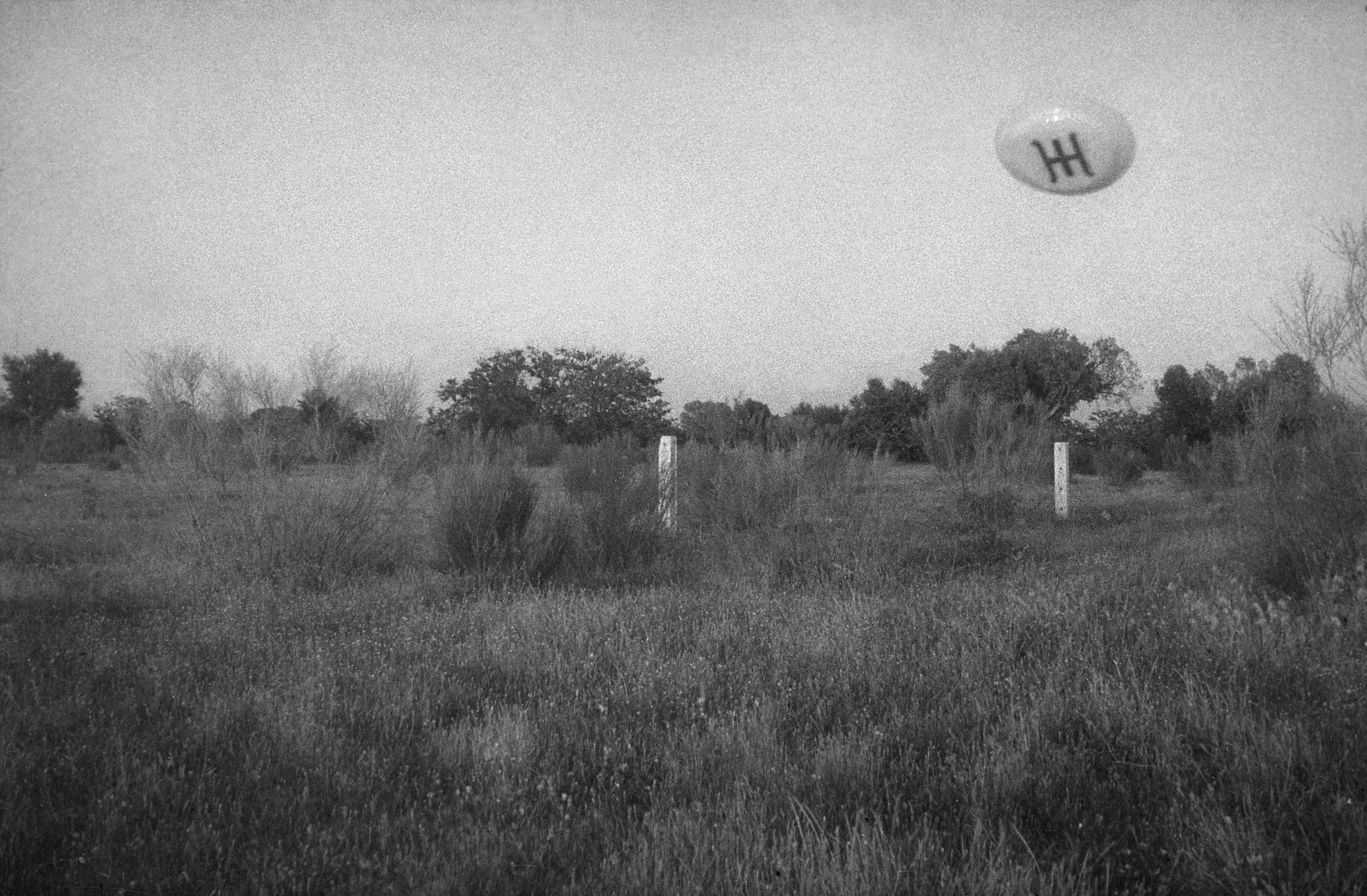 Last of the five photographs taken of a supposed ummite ship in San José de Valderas (Spain) on June 1, 1967.